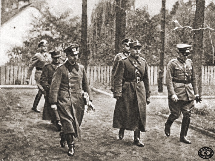 General Tadeusz Kutrzeba , the Deputy CO of the Army 'Warsaw' (Armia 'Warszawa'), coming to negotiate the surrender of Warsaw